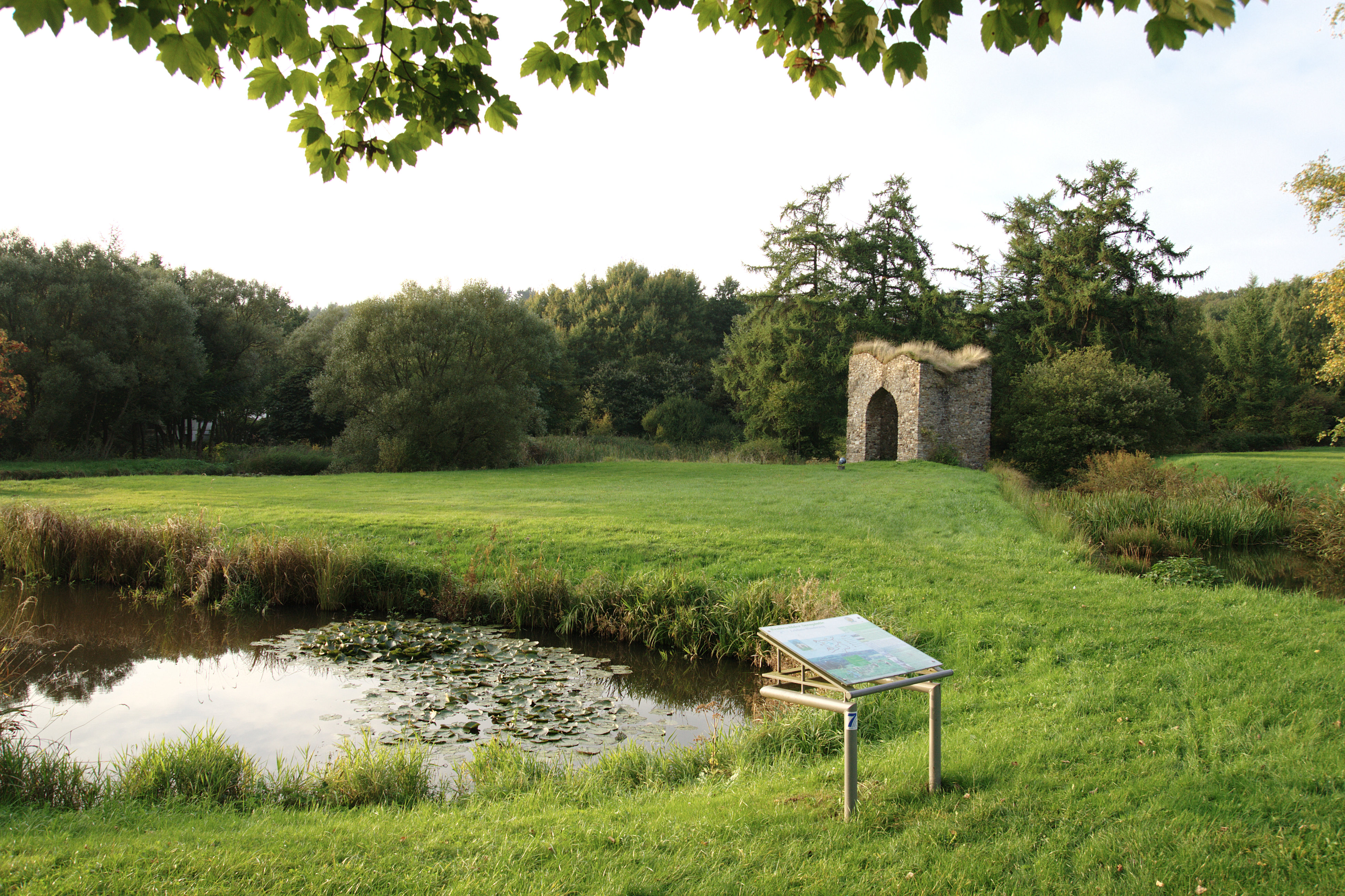 Overview of the ruins of Burg Steinebach in Steinebach an der Wied village, Westerwald region, Rhineland-Palatinate, Germany